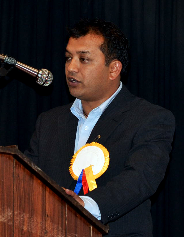 This is the photo of Gagan Thapa, new generation politician of Nepal.